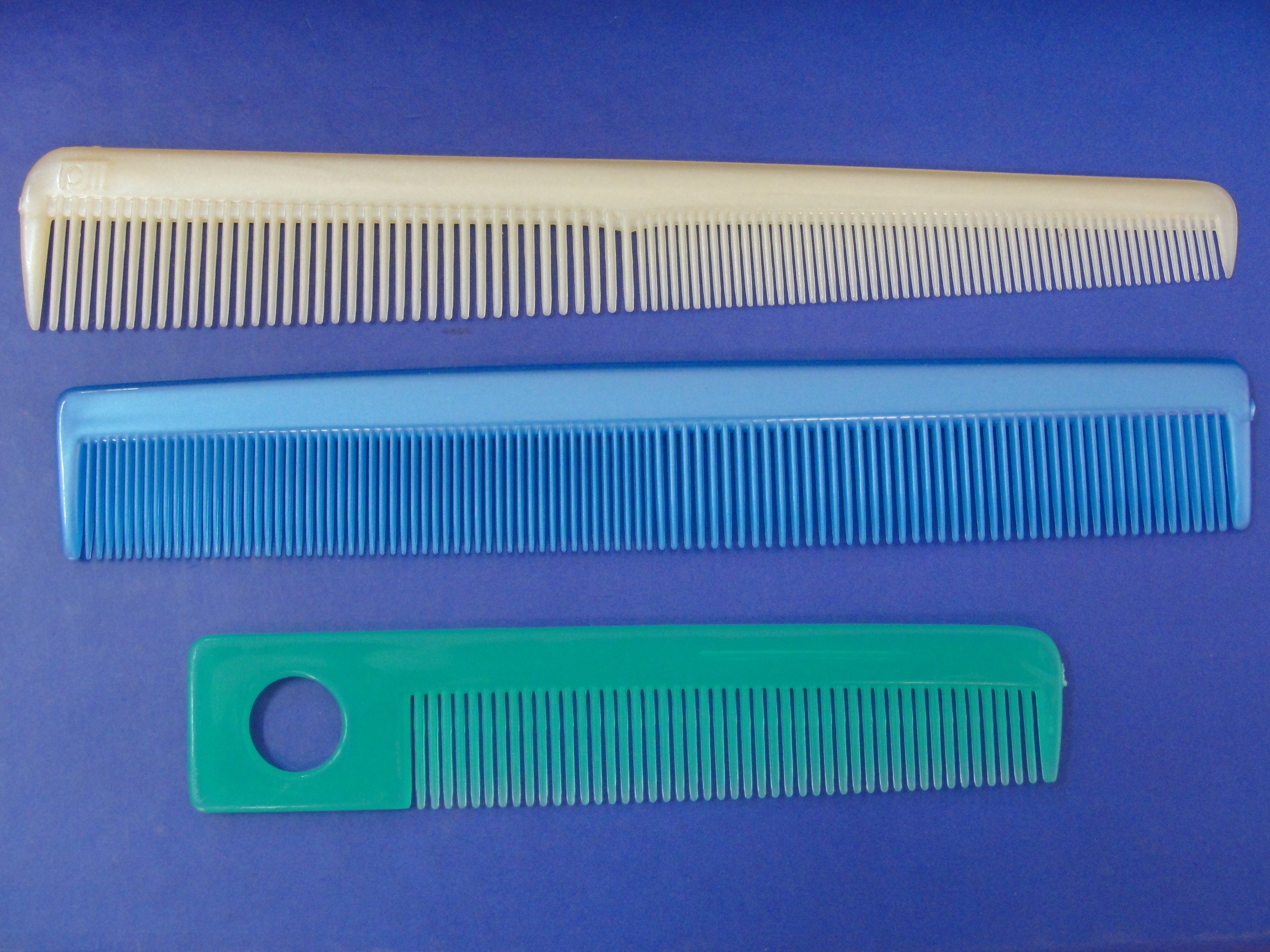 A comb